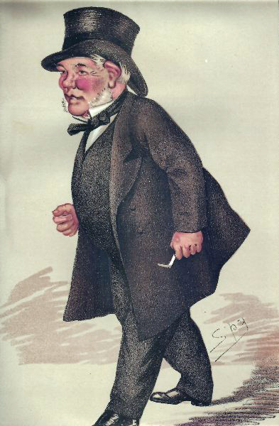 Caricature of Isaac Butt. Caption read "Home Rule".